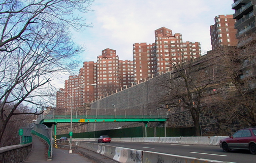 Looking northeast and up at Castle Village from Hudson River Greenway.